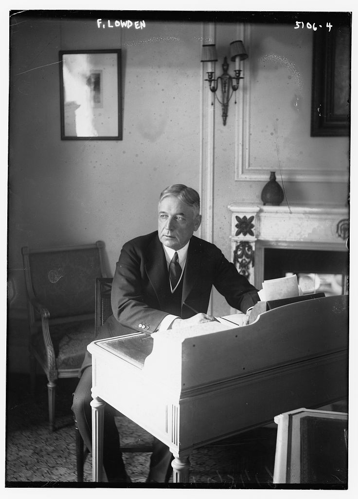 Frank Orren Lowden in 1920